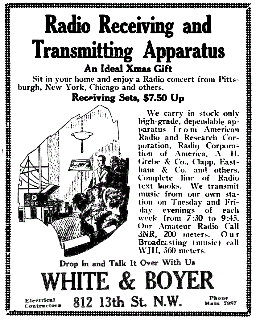 In late 1921, advertisements for the White & Boyer Company included the statement that they were operating radio station WJH, which was the first broadcasting station licensed in Washington, D.C.